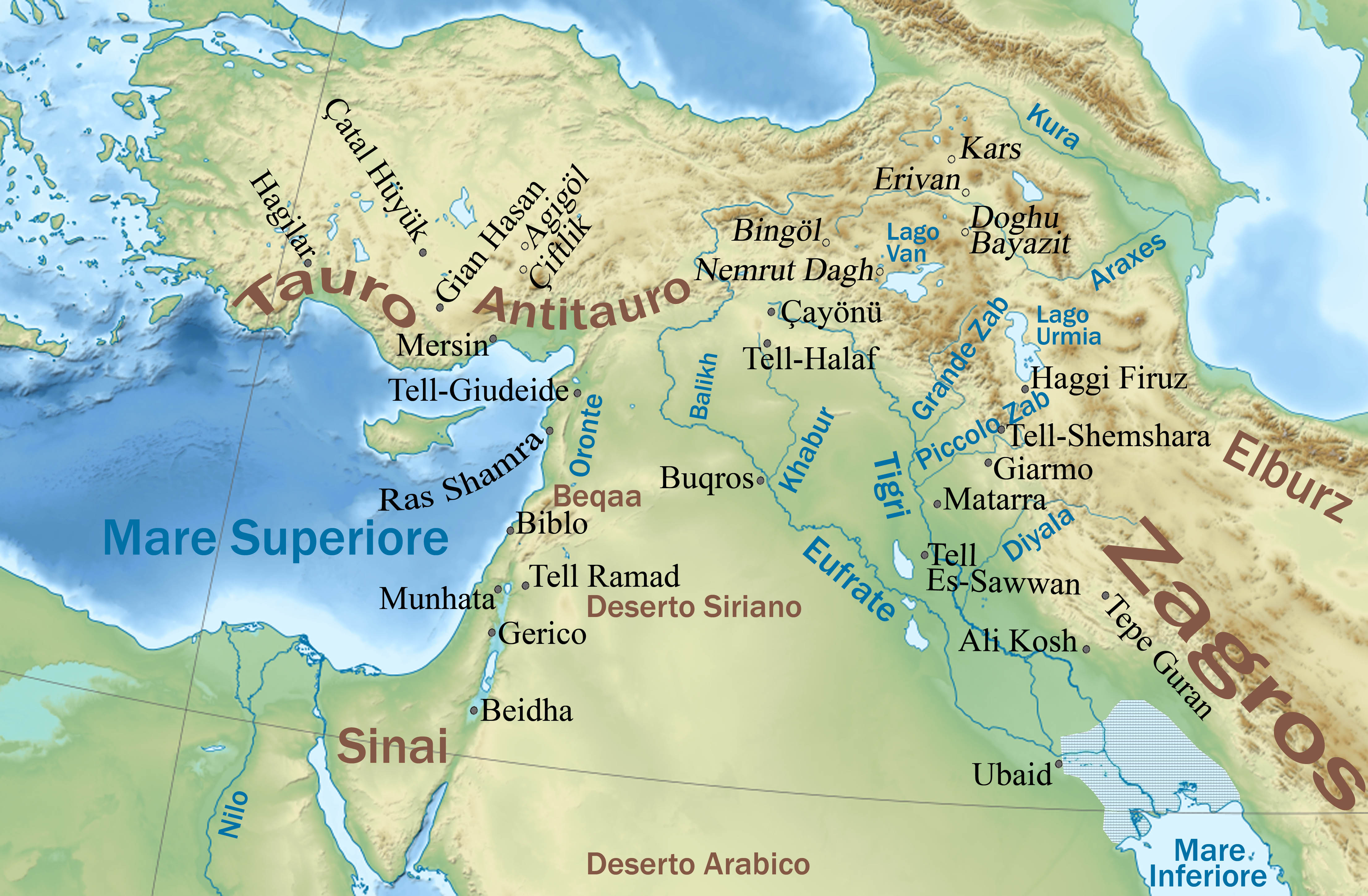 Neolithic sites of the Near East